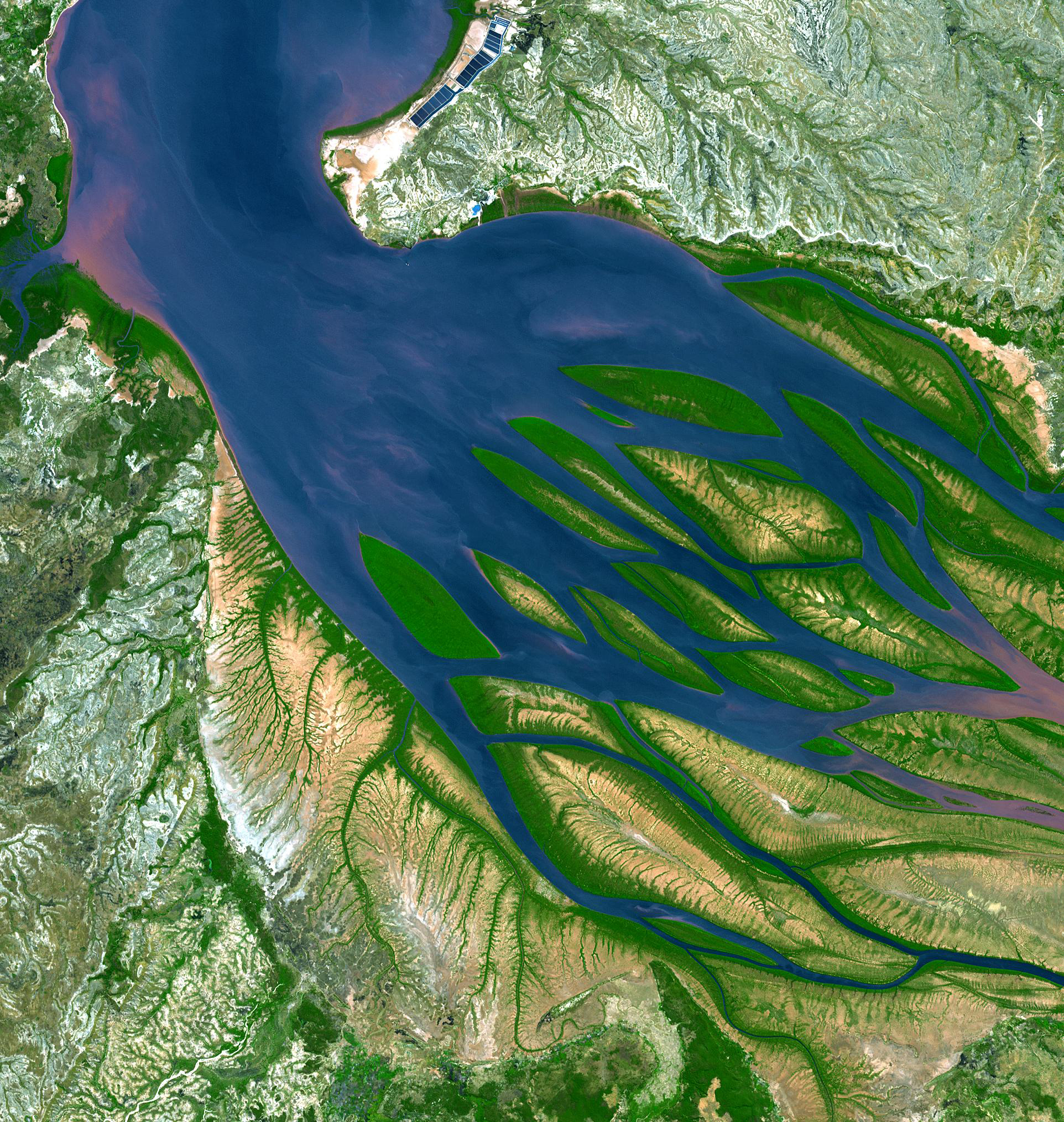 Simulated natural-color satellite image of Bombetoka Bay, Madagascar. In the image, water is sapphire and tinged with pink where sediment is particularly thick. Dense vegetation is deep green. The rectangular blue areas near the top center edge may be shrimp pens. The image covers an area of 29 x 30.4 km, is located near 15.9 degrees south latitude, 46.4 degrees east longitude.